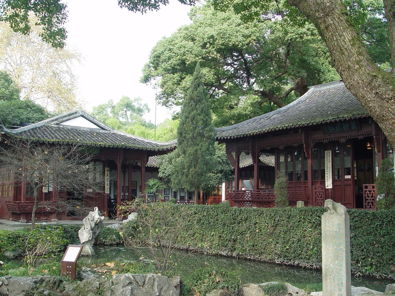 Xiling Society of Seal Arts, Hangzhou, Zhejiang Province, China. Pool the old buildings